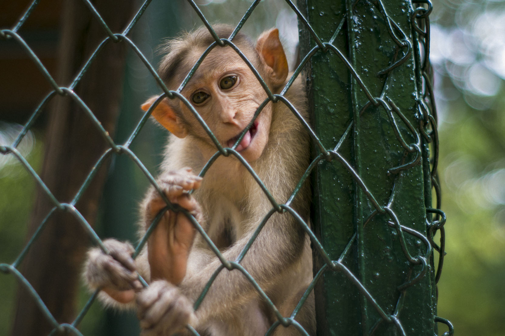 Monkey at Children's park/Guindy National Park, Chennai.